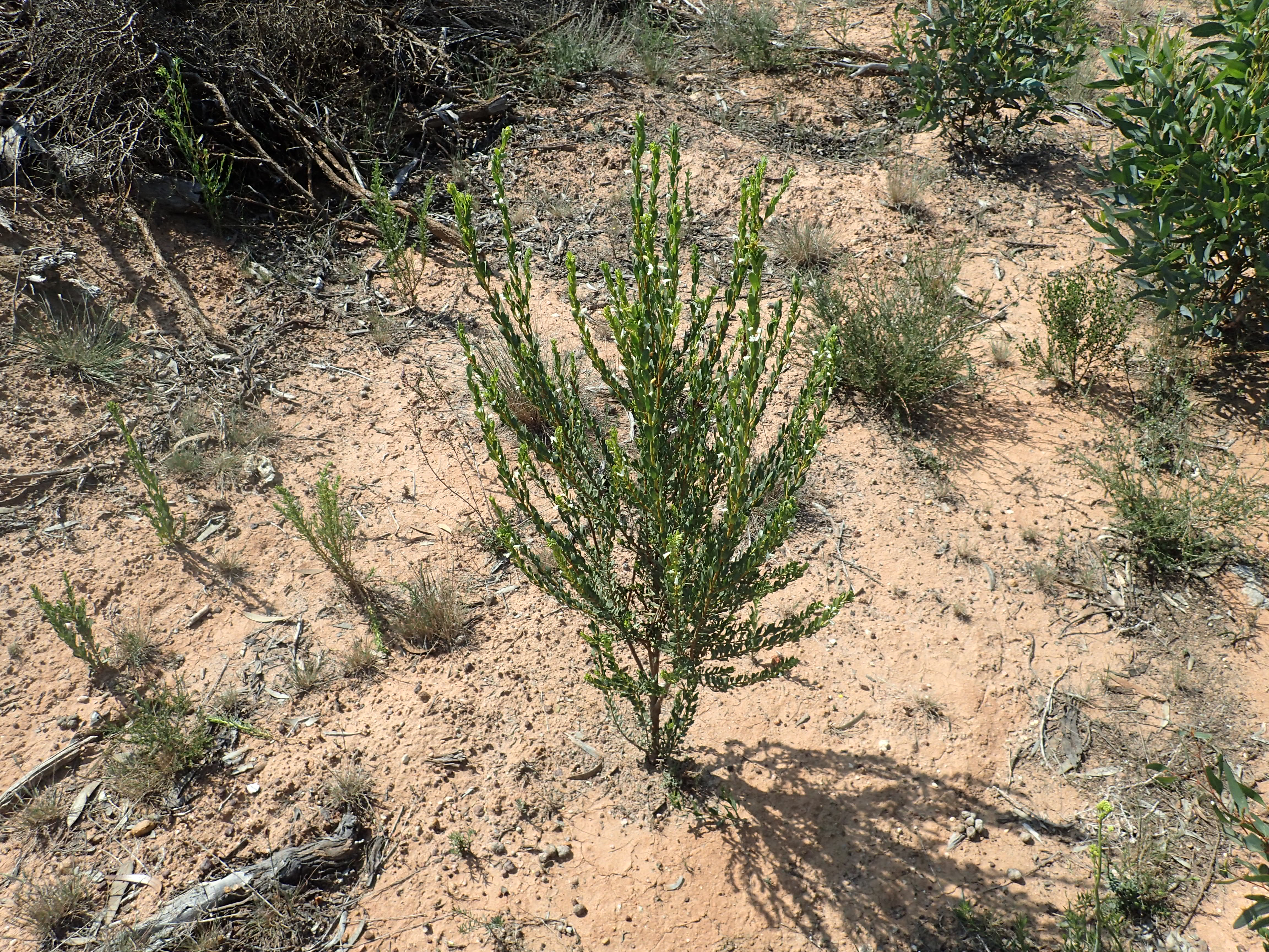 Eremophila compressa growing at the corner of Gimlet Road and Salmon Gums West Road, in graded roadside slay